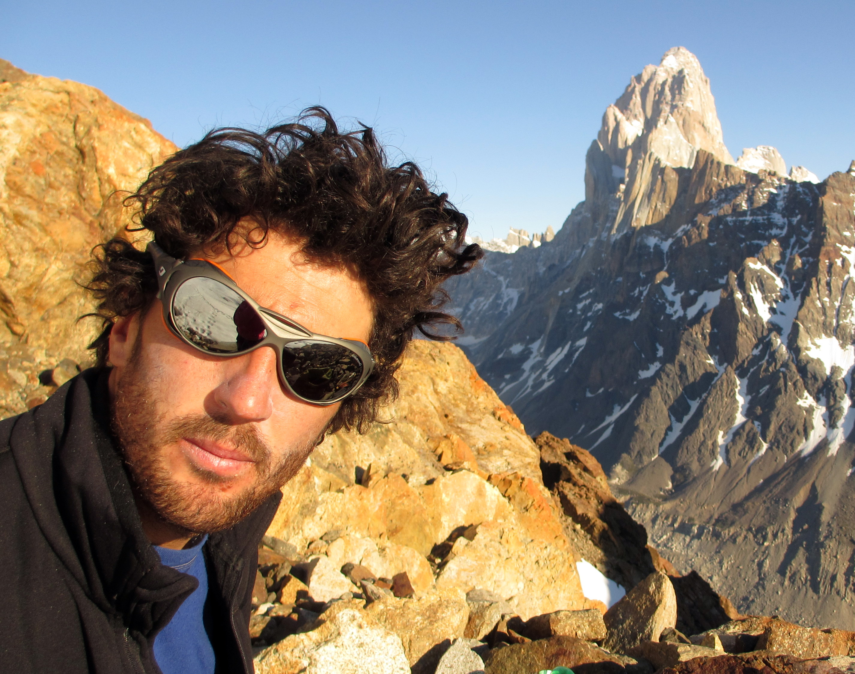 Fitz Roy in background